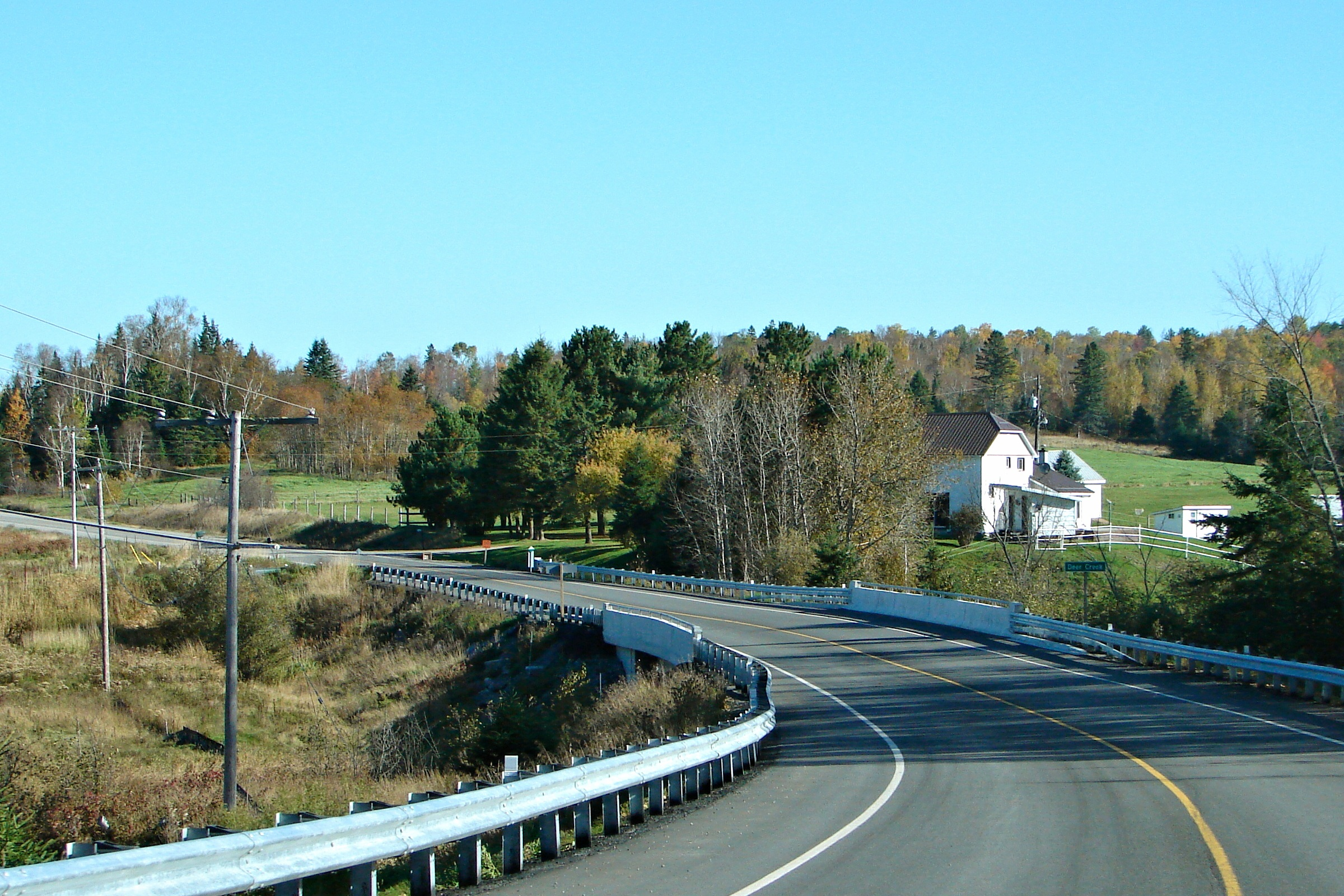 Ontario Secondary Highway 539 north of Warren, Ontario, Canada